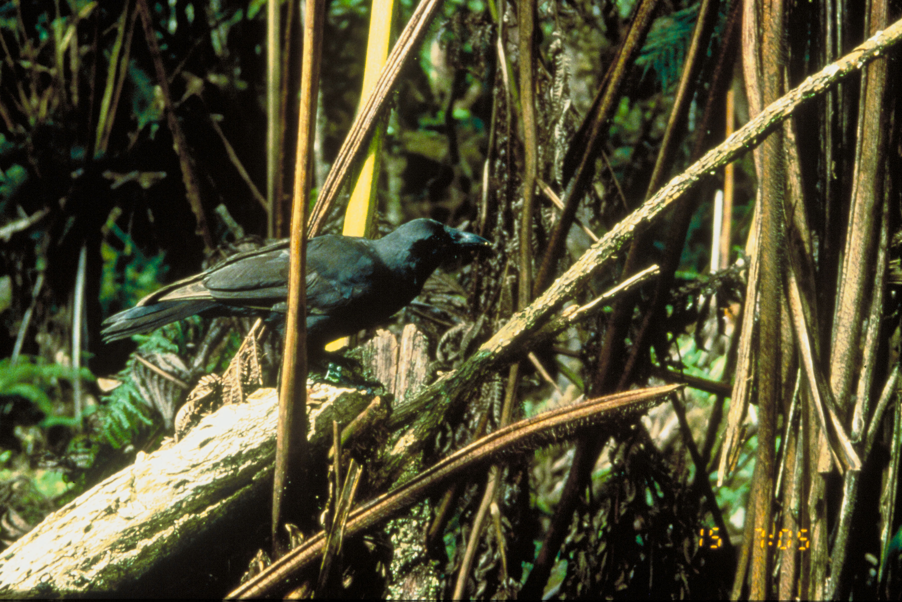 Hawaiian Crow (Corvus hawaiiensis).